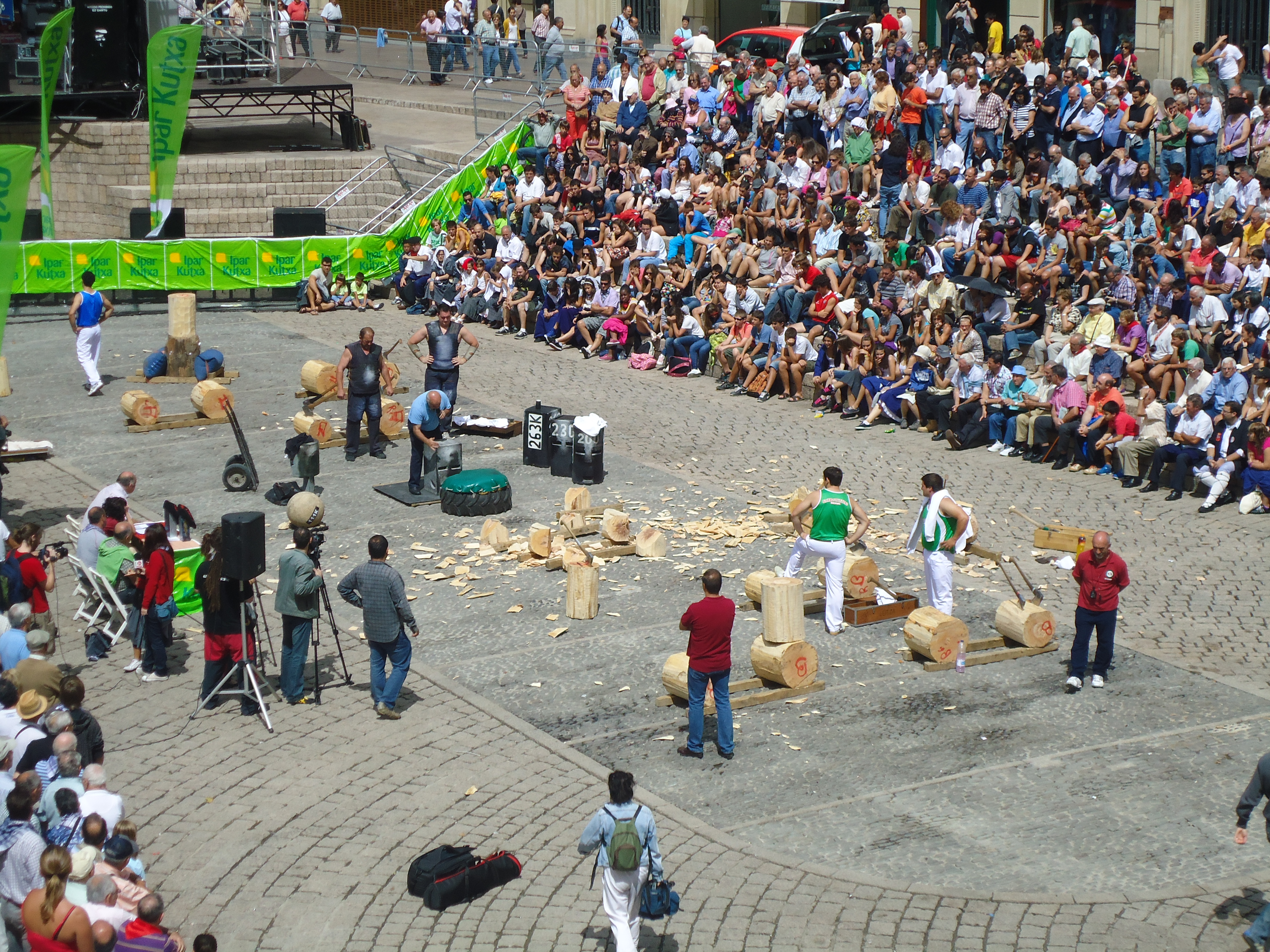 Herri kirolak (Basque traditional sports) in Vitoria-Gasteiz (Araba/Álava, Basque Country)